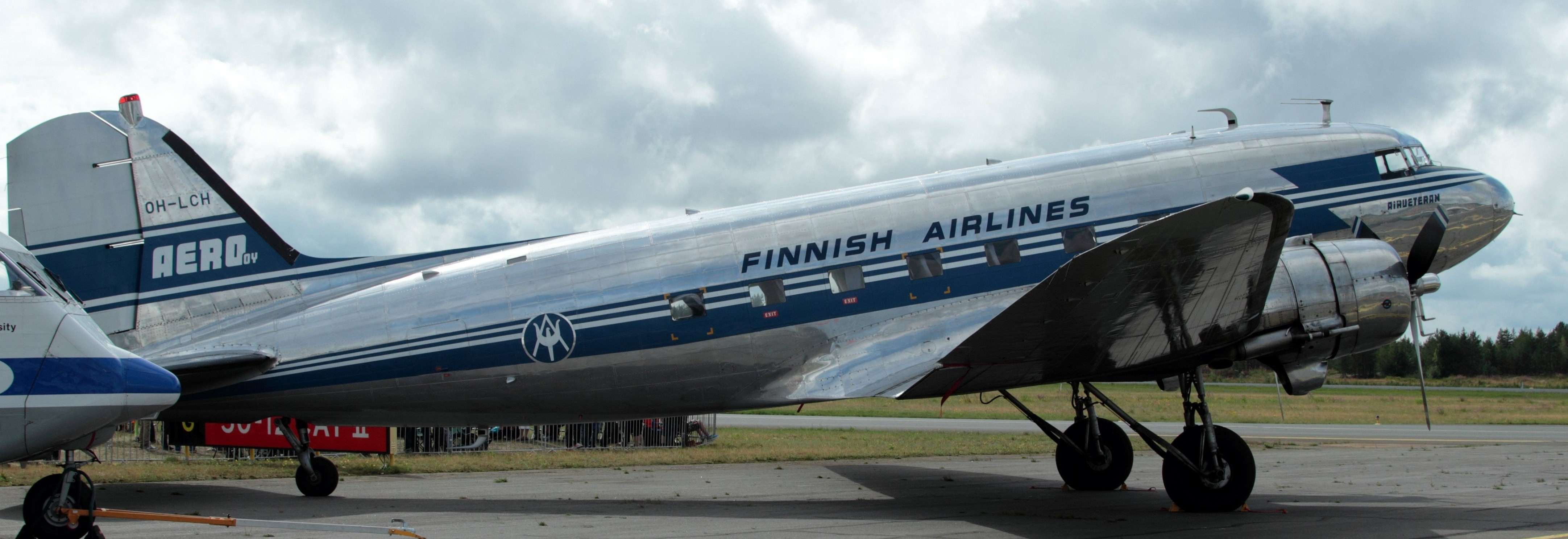 Douglas DC-3 (OH-LCH) at Tour de Sky 2014 in Oulu.